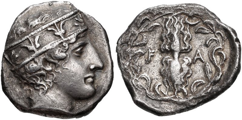 Stater, 404 BC, Olympia. 94th Olympiad